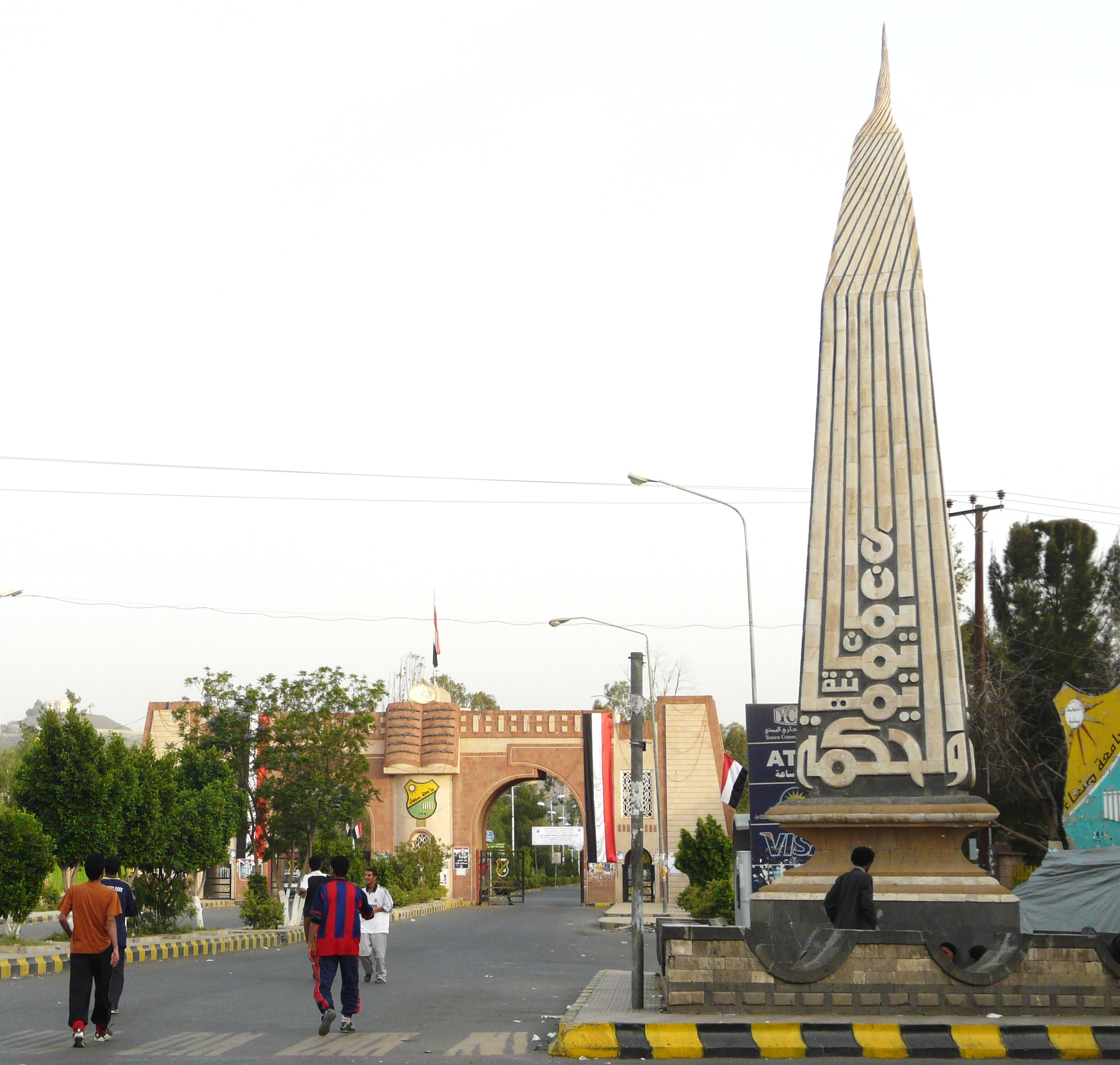 Statue of Sana'a University with inscription meaning: Faith is Yemeni and wisdom is Yemeni.